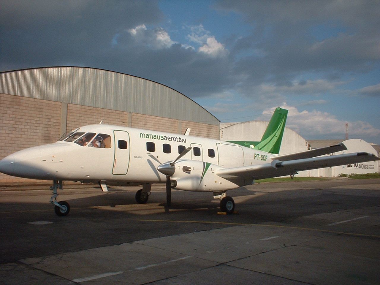 Manaus Aerotáxi EMB-110P1 (PT-SOF) Author: Marcelo F. Pacheco